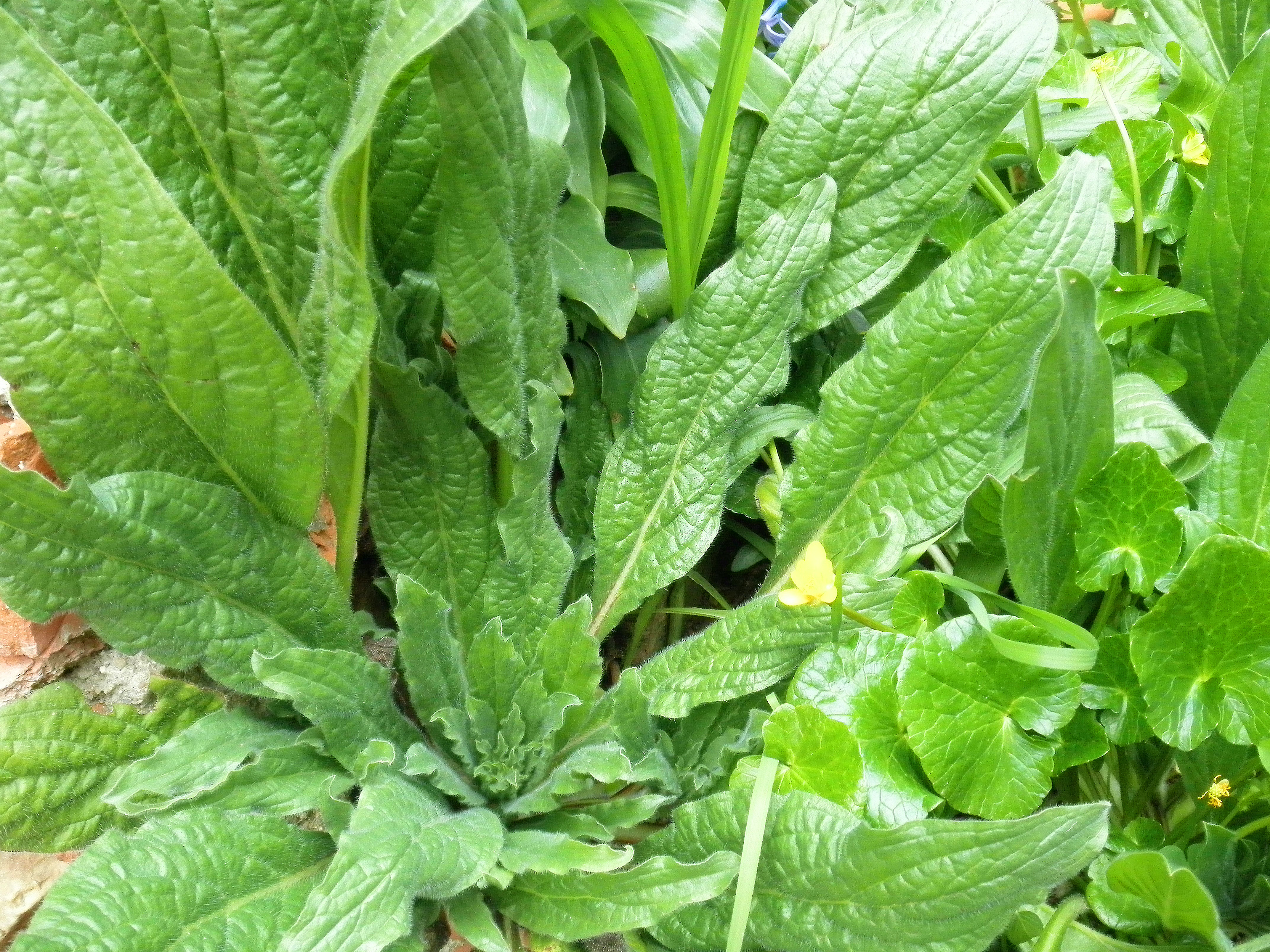 Echium plantagineum basal leaves rosette, Sierra Madrona, Spain